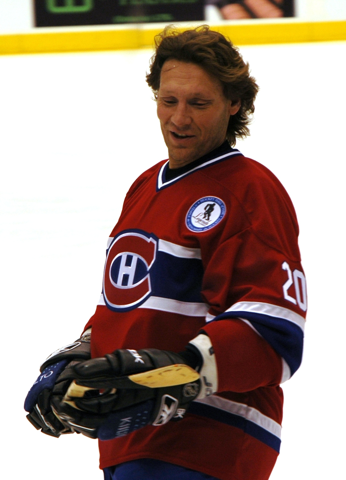 Jyrki Lumme played with Montreal Canadiens Alumni at the Legends Clasic in Toronto